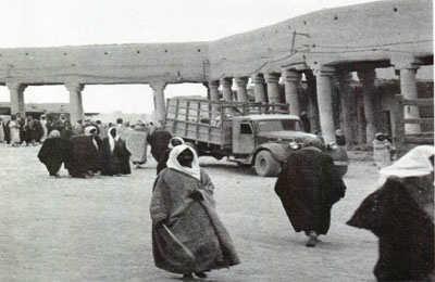 OldRiyadh 1943